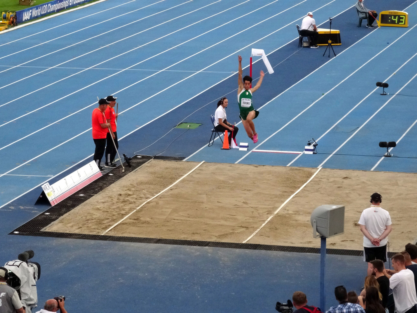 2016 IAAF World U20 Championships in Bydgoszcz, long jump men final